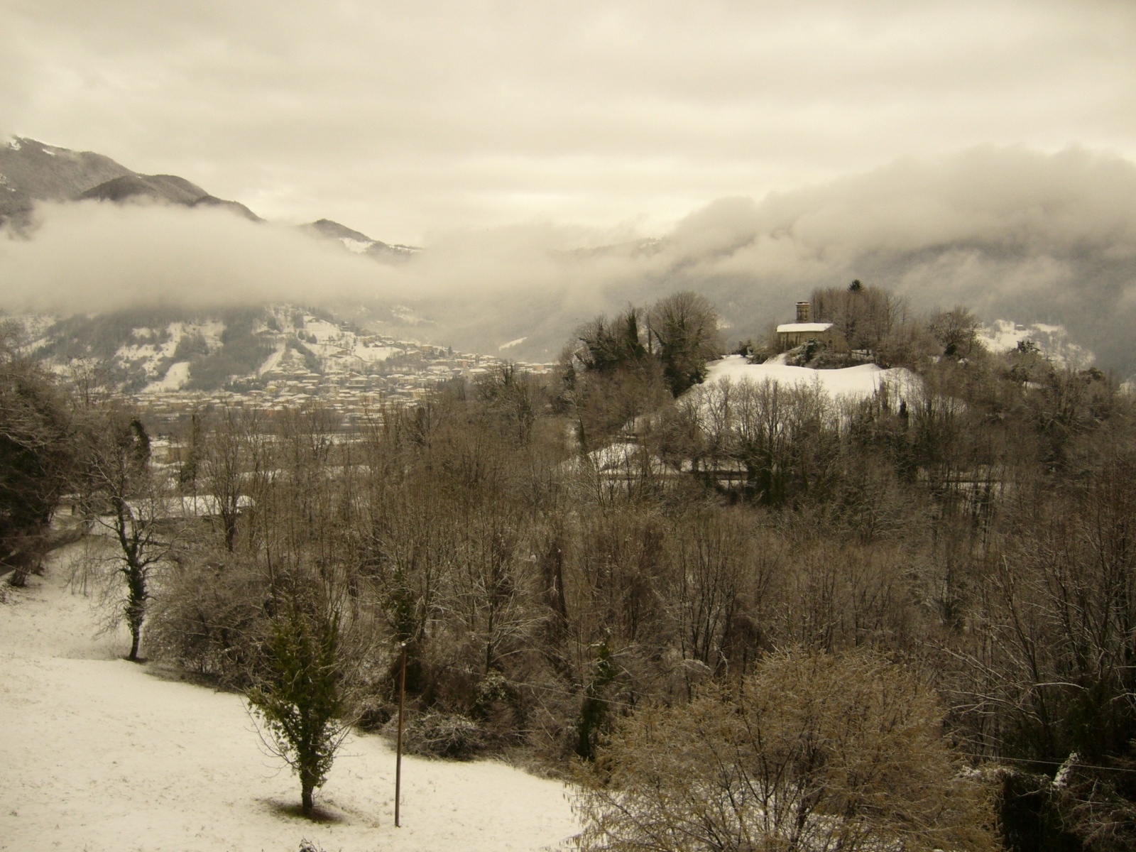 The old church dedicated to S.Pietro in Nembro (Bergamo), Valle Seriana.